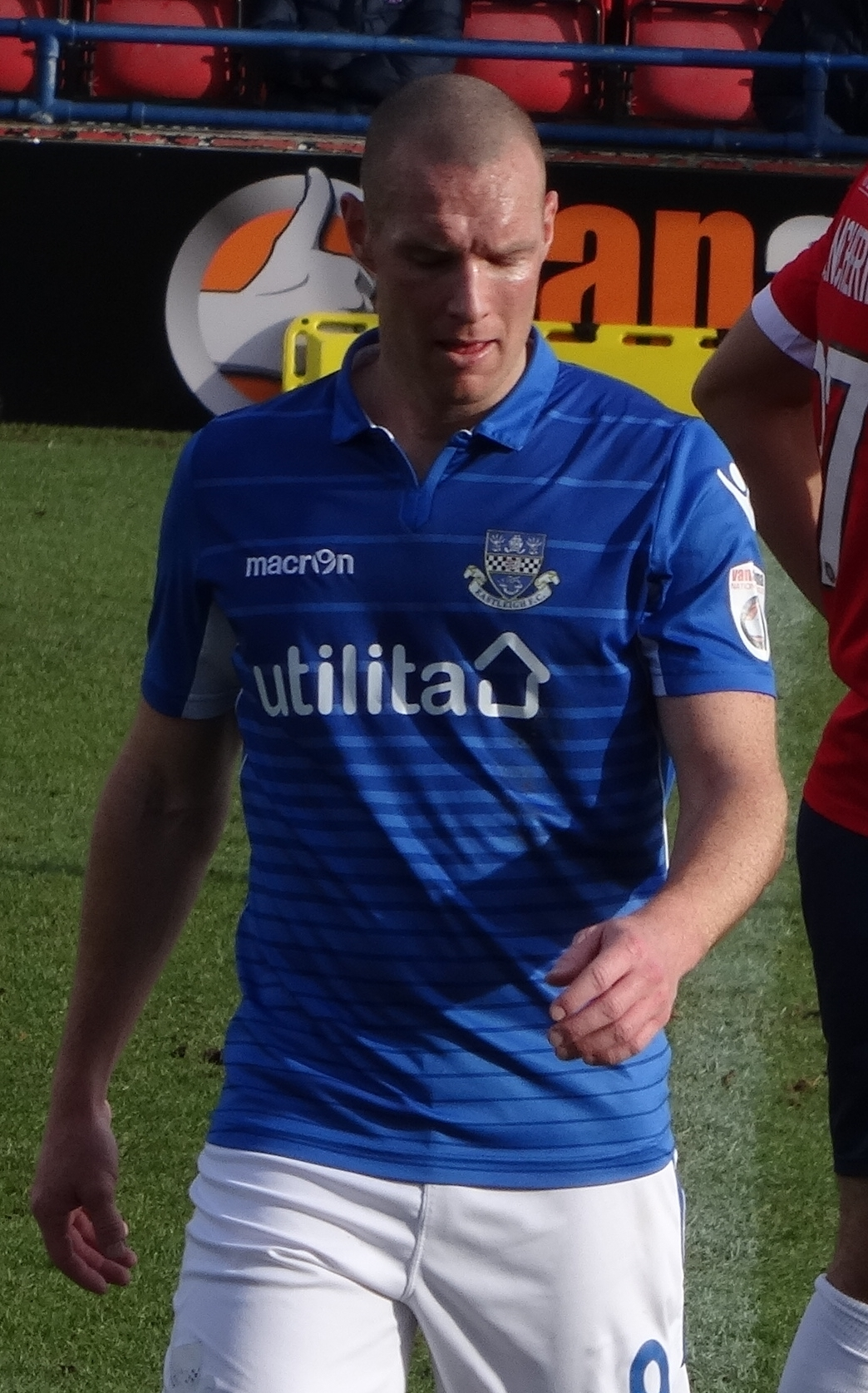 James Constable playing for Eastleigh against York City at Bootham Crescent, York on 4 March 2017